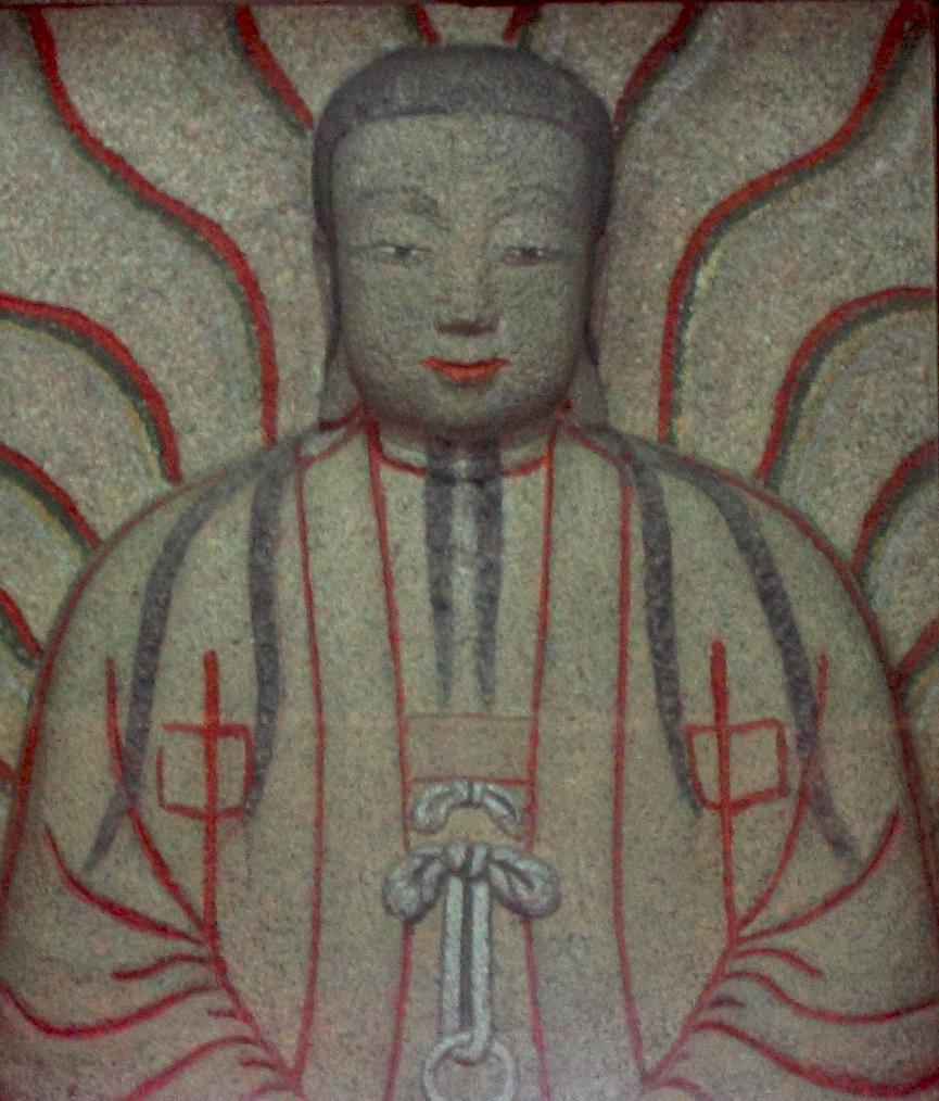 Mani of the Cao'an temple, referred to as the "Buddha of Light"